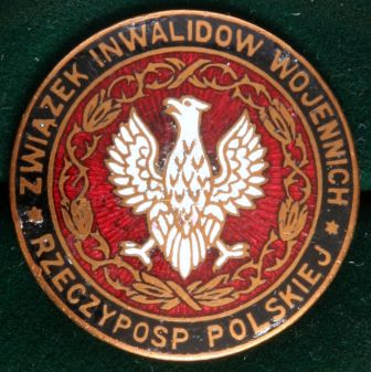 Badge of ZIW RP from 1919